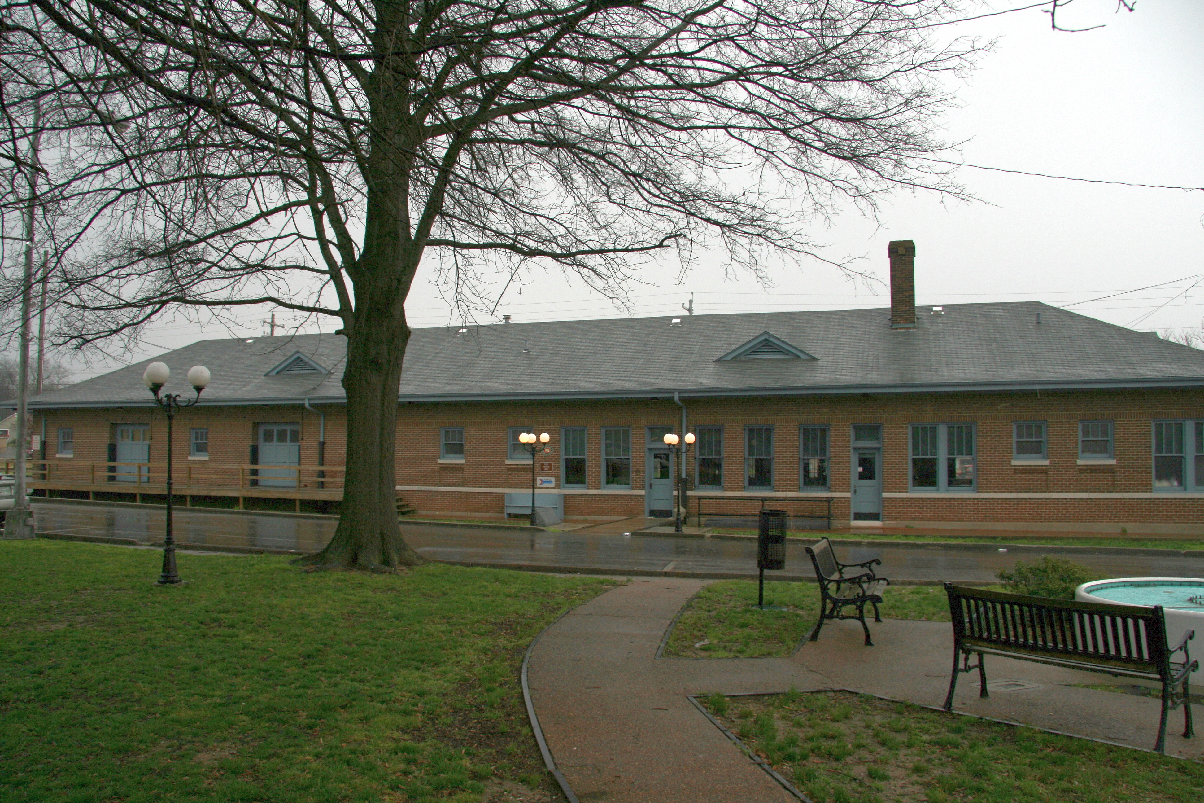 The Newbern Illinois Central Depot located at the junction of Main and Jefferson Streets in Newbern, TN.